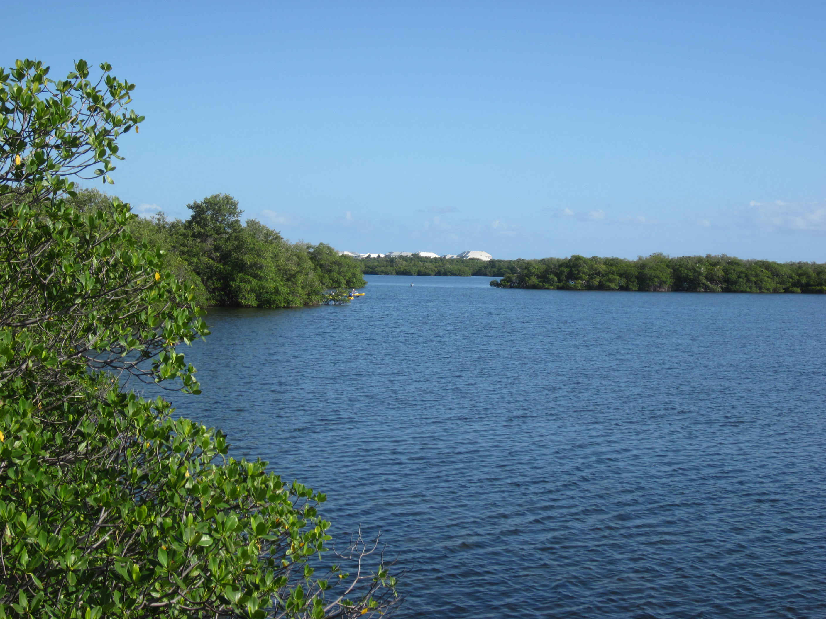 Lake Worth Lagoon at John D. MacArthur Beach State Park, Riviera Beach, FL